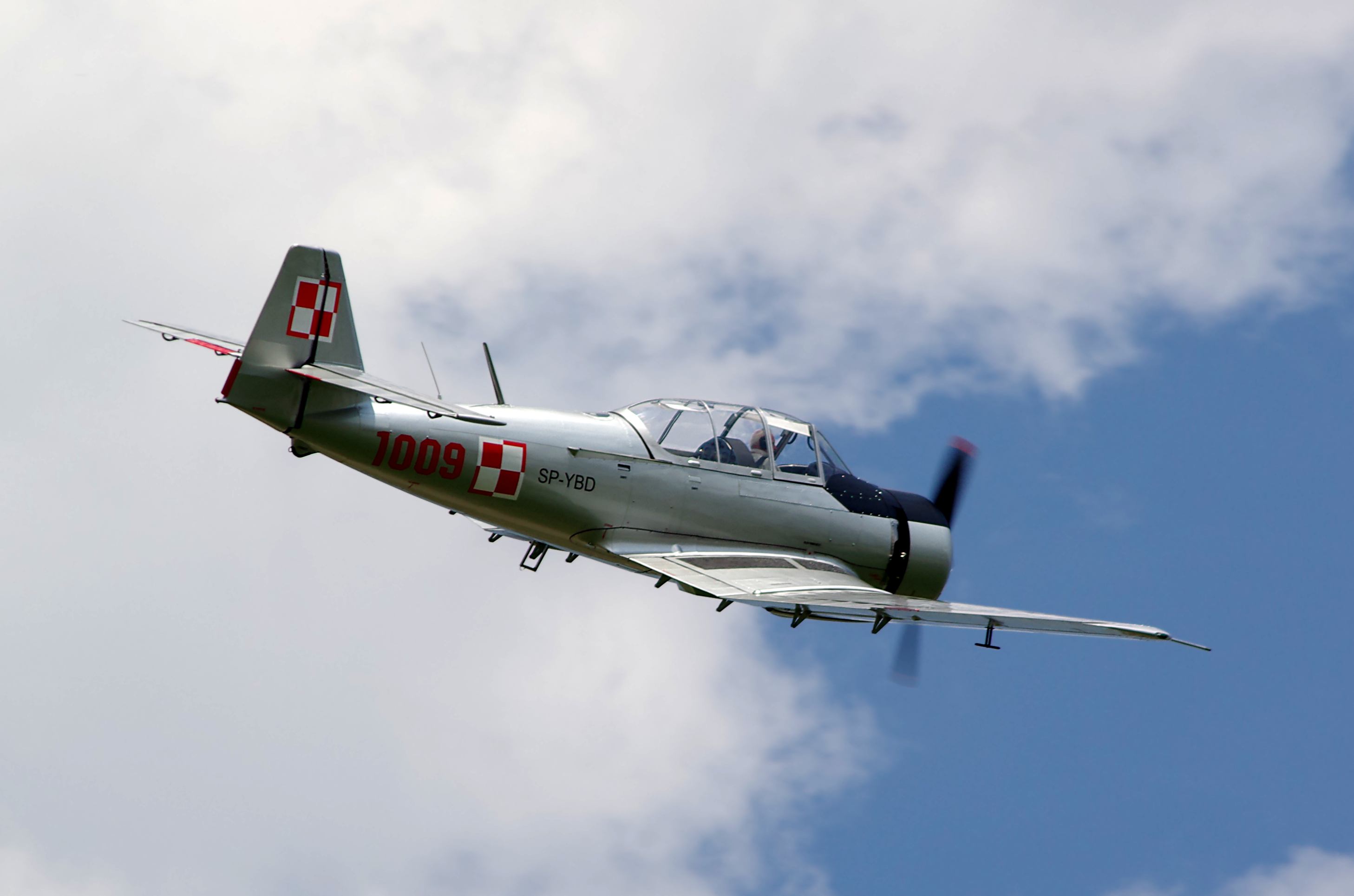 PZL-Mielec TS-8 Bies at the air show in Kraków